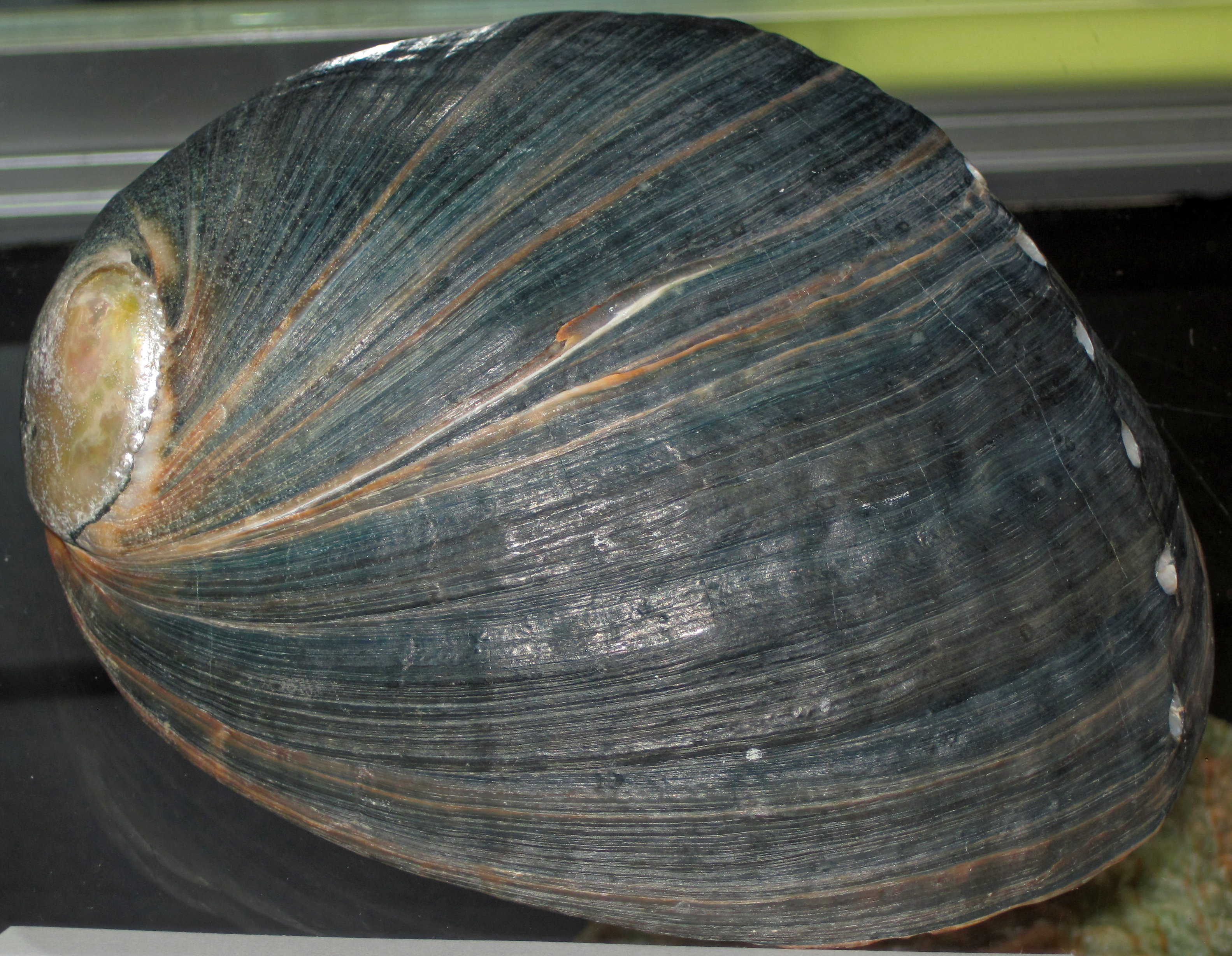 Haliotis cracherodii Leach, 1814 - exterior surface of a black abalone from Oregon, USA (BMSM 50536, Bailey-Matthews Shell Museum, Sanibel Island, Florida, USA). The gastropods (snails & slugs) are a group of molluscs that occupy marine, freshwater, and terrestrial environments. Most gastropods have a calcareous external shell (the snails). Some lack a shell completely, or have reduced internal shells (the slugs & sea slugs & pteropods). Most members of the Gastropoda are marine. Most marine snails are herbivores (algae grazers) or predators/carnivores. The abalones are an odd group of gastropods that have a coiled, cap-shaped, aragonite shell with a curvilinear set of excurrent respiratory holes. Interior shell surfaces have intensely iridescent nacreous aragonite ("mother of pearl"). Abalones are hard substrate algae grazers. From museum signage [typos and mis-spellings corrected]: "Abalones are gastropod molluscs that typically have a widely open shell with holes. The holes serve to expel water after it circulates through the animal during breathing. Some abalones have very elegant shapes and striking colors and their beauty is boosted by the presence of a colorful layer of mother-of-pearl lining the interior of the shell." "There are about 75 species of abalone. These species live on submerged rocks along different continents and islands, usually in cold water areas The West Coast of the U.S. is rich in abalone species. Abalones attach themselves to the rocks using a powerful shell muscle. They are herbivores, grazing on seaweed, with help from a set of specialized teeth called a radula." Classification: Animalia, Mollusca, Gastropoda, Haliotidae Locality: Coos Bay, western-coastal Oregon, USA More info. at: and